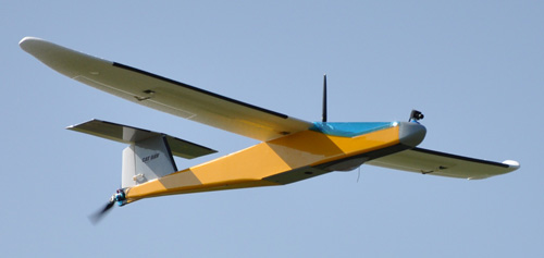 UAV for civil applications. Designed and operated by CATUAV